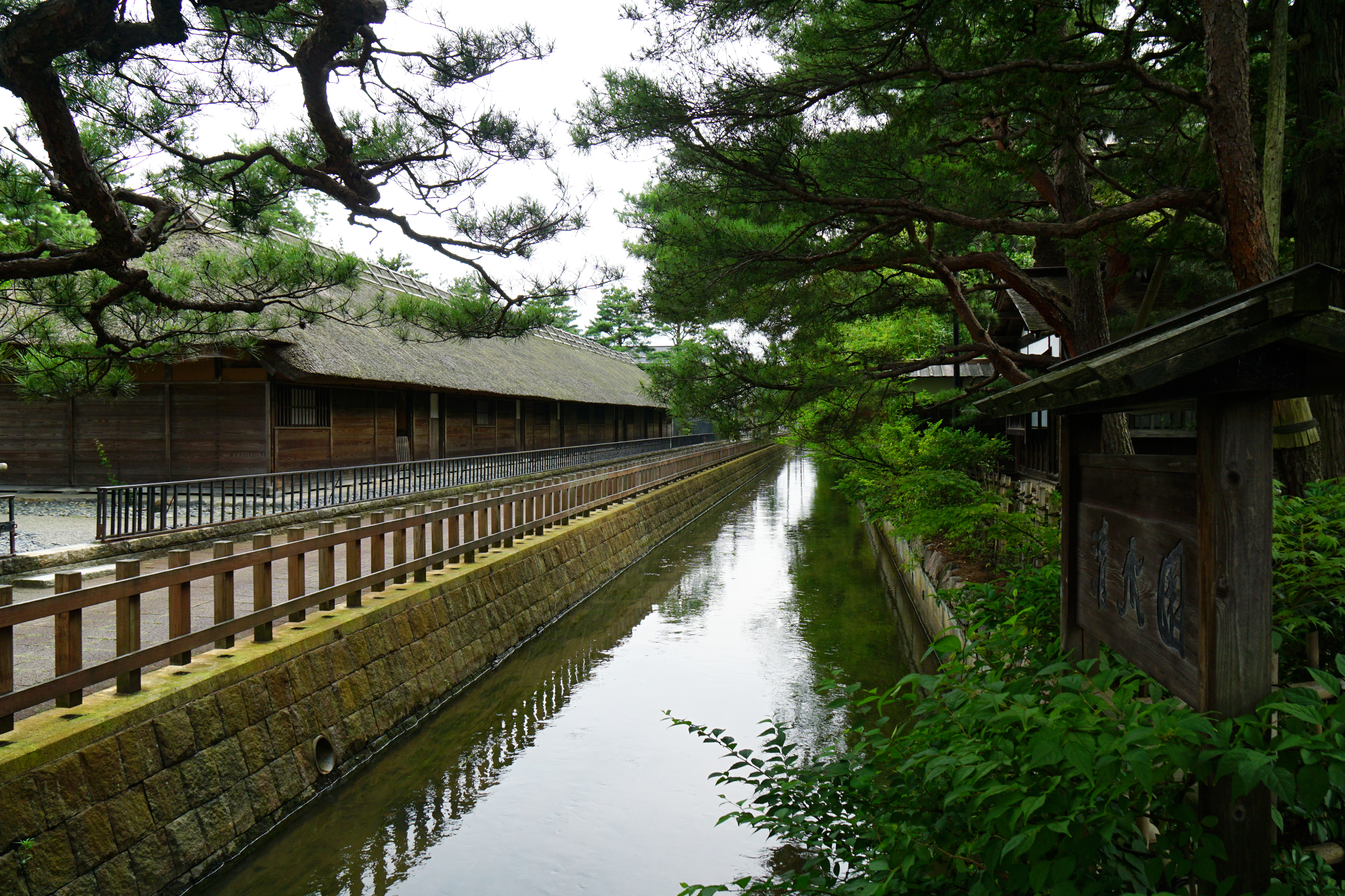 Shimizu-en in Shibata, Niigata prefecture, Japan.